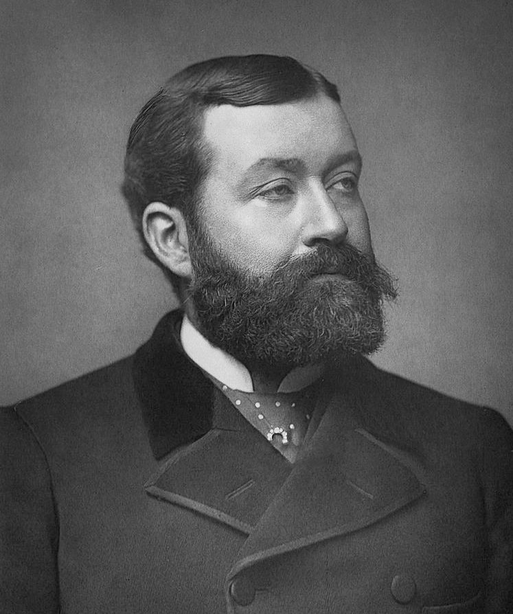 George Robert Sims, British journalist, poet, dramatist and novelist, 1884. A photograph from The Theatre, A Monthly Review, Volume IV, July to December, 1884, edited by Clement Scott, David Bogue, London, 1884.